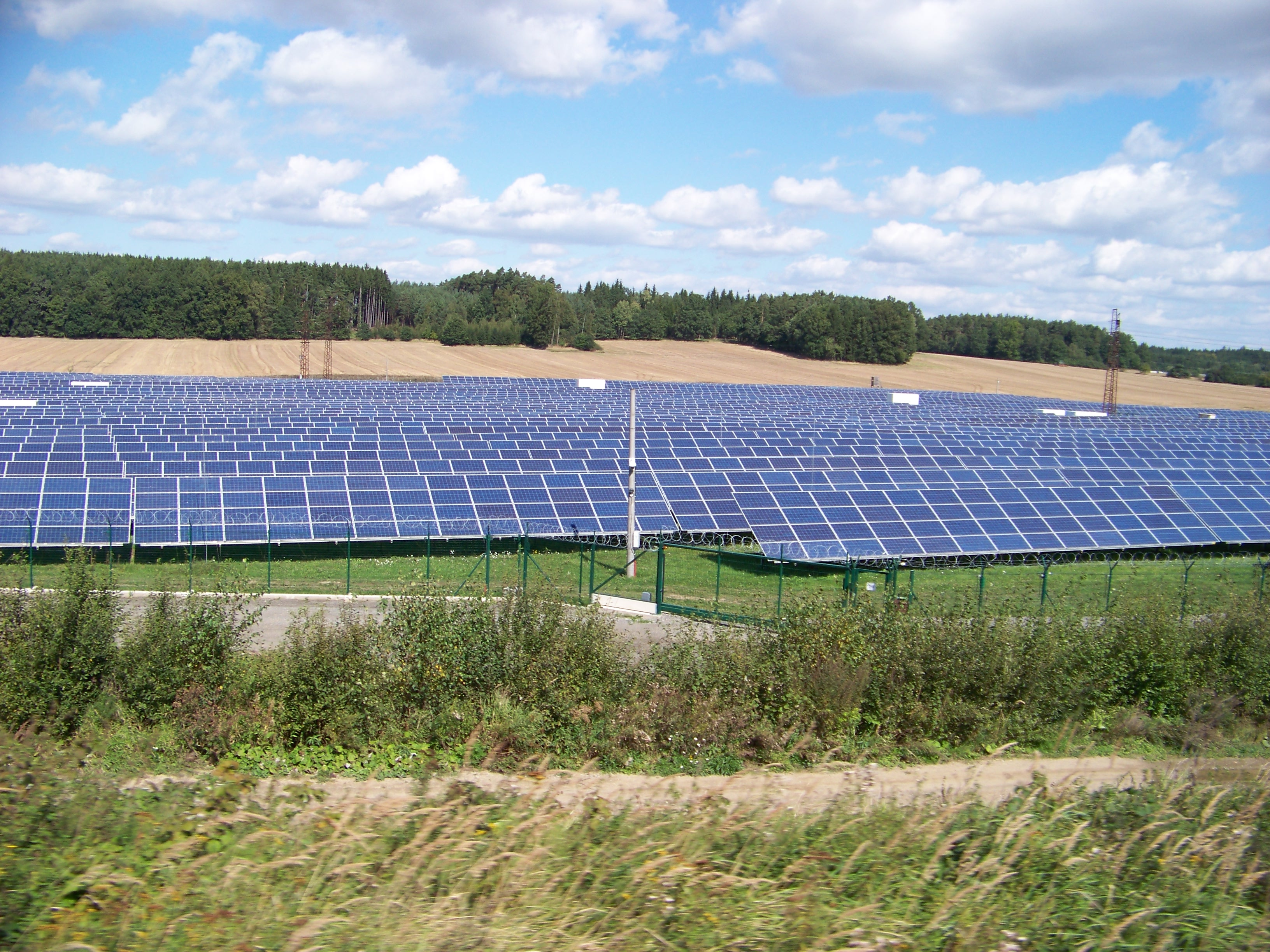 Tábor-Čekanice, Tábor District, South Bohemian Region, the Czech Republic. Čekanice solar plant.